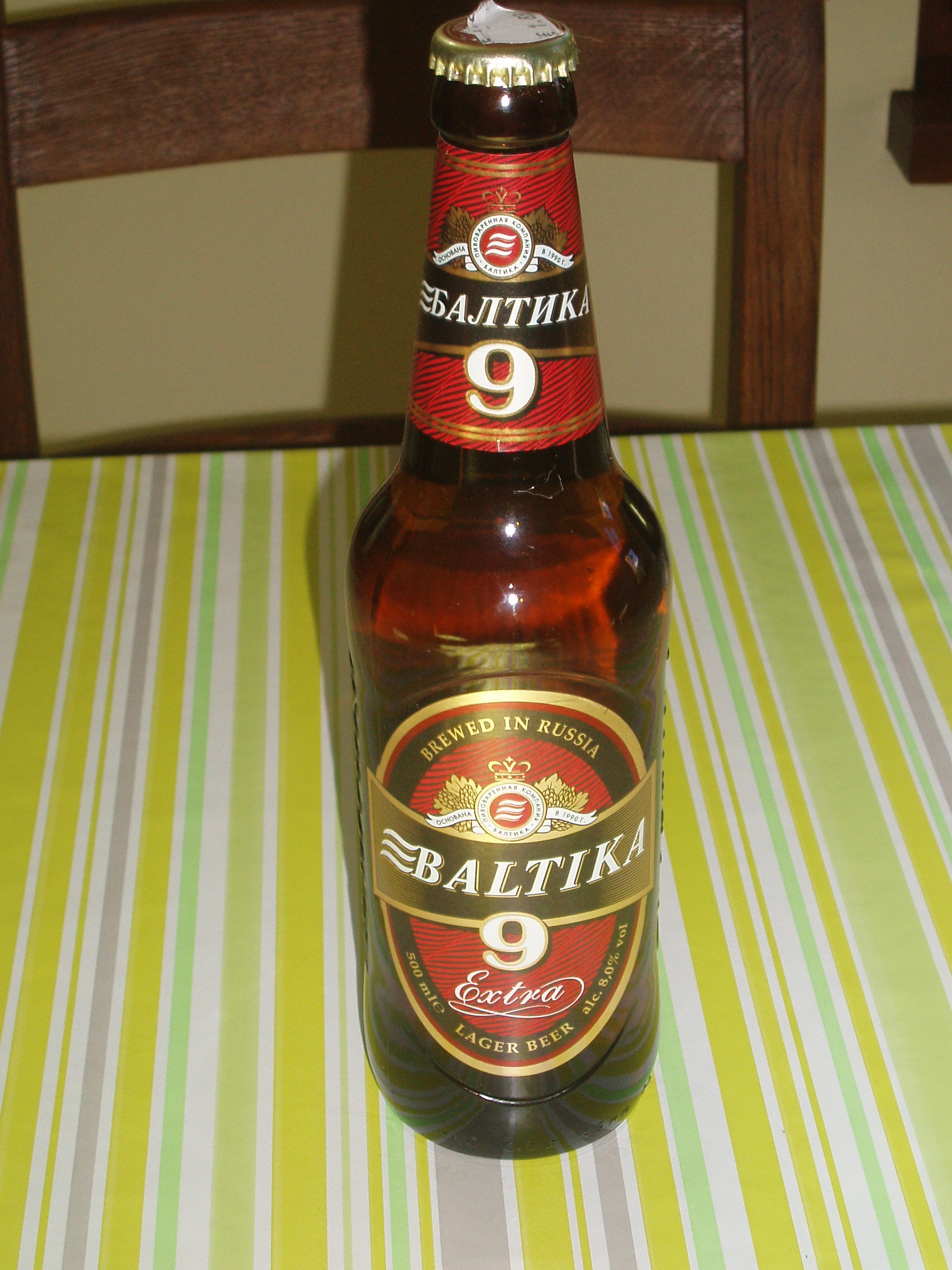 Baltika 9